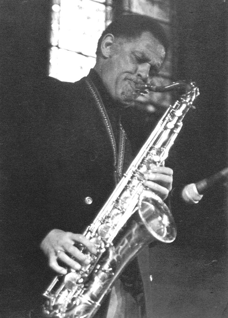 Dexter Gordon in Amsterdam (2). 1980. Picture taken by Albert Kok